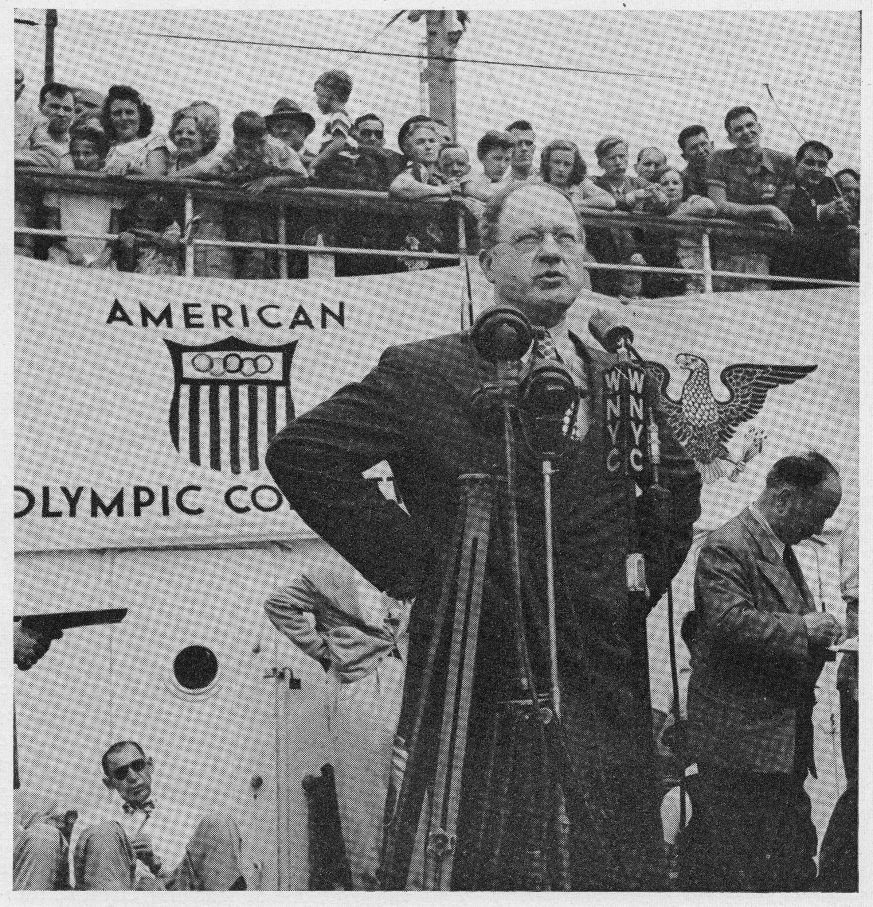 Avery Brundage (right), vice president of the IOC and president of the USOC, speaks to the media at the London Olympics, 1948. The report is copyright 1949; there is no indication that it was ever registered with the copyright office or was renewed in 1976 or 1977 per the volumes of copyright entries available on Google Books.